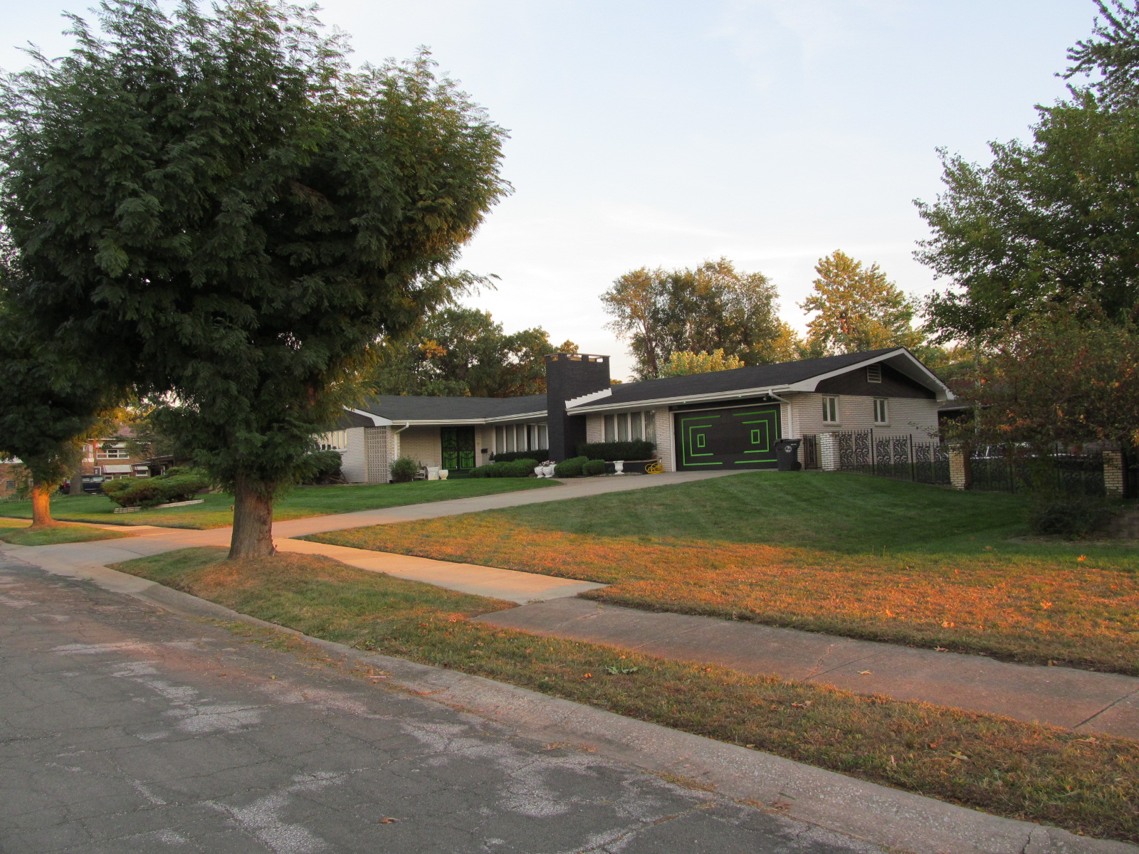 Tolleston Homes